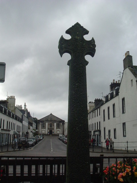 Stone cross and Main Street, Inveraray Looking towards the Church of Scotland building.